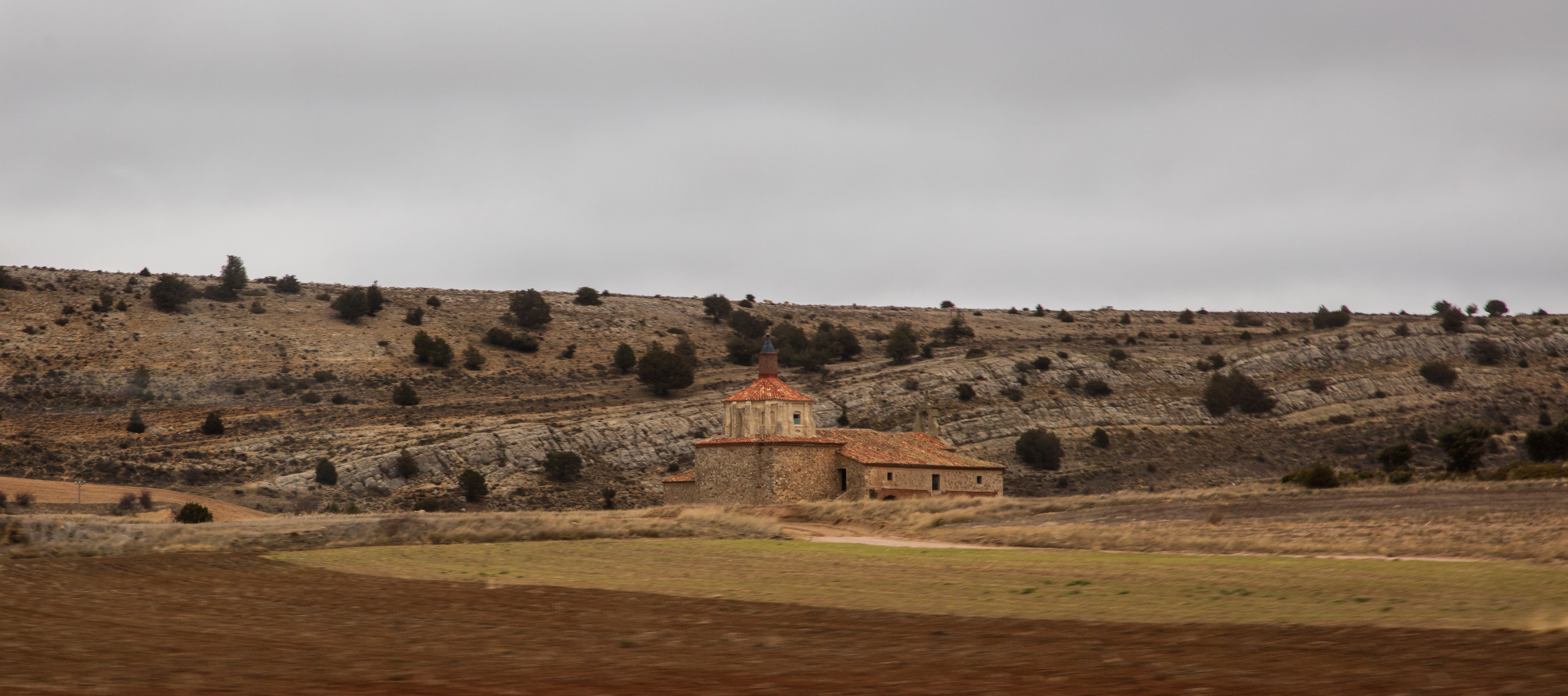 Hermitage of the Lady of La Serna, Ciria, Soria, Spain